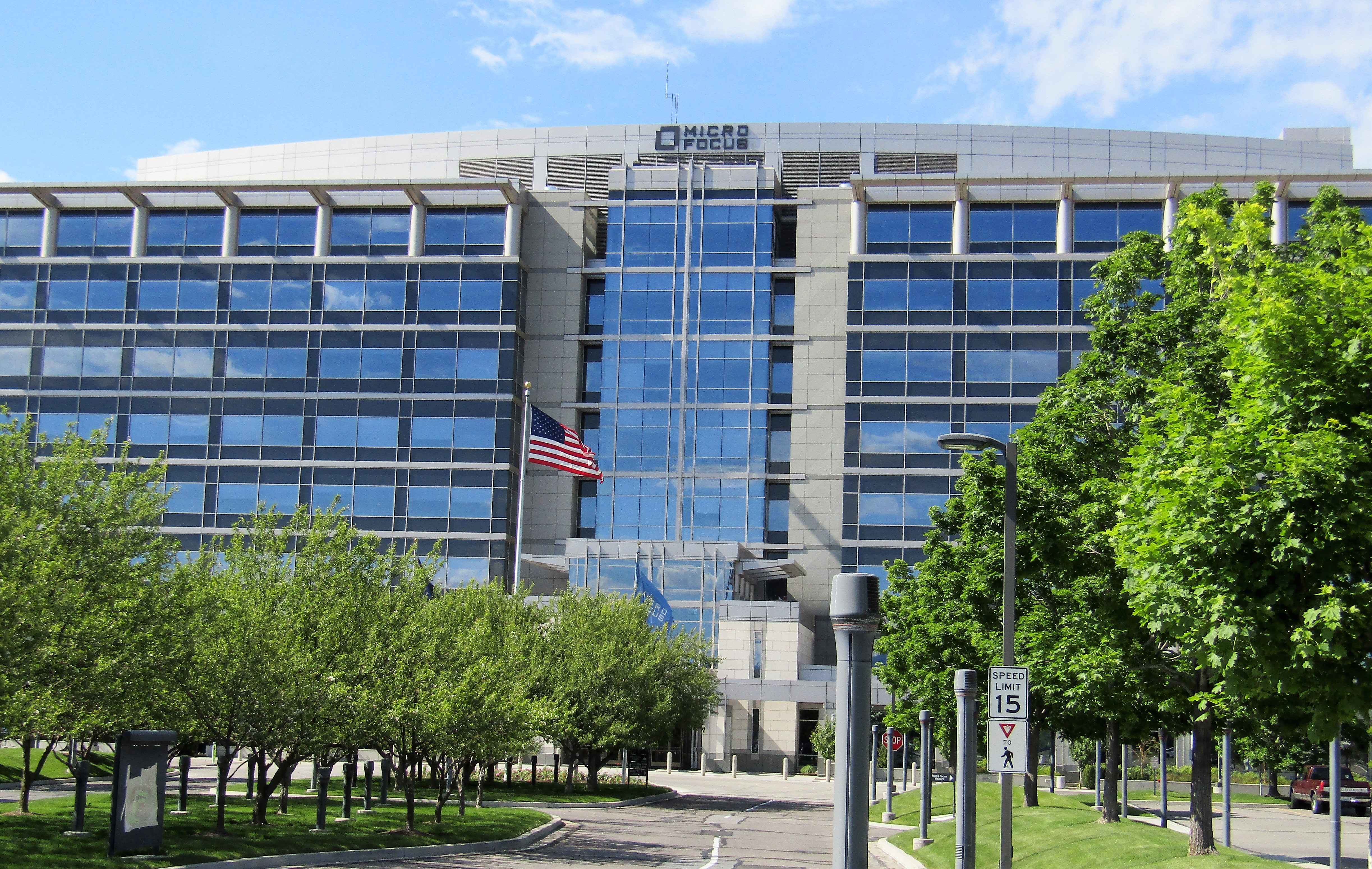 Micro Focus office building in Provo, Utah.